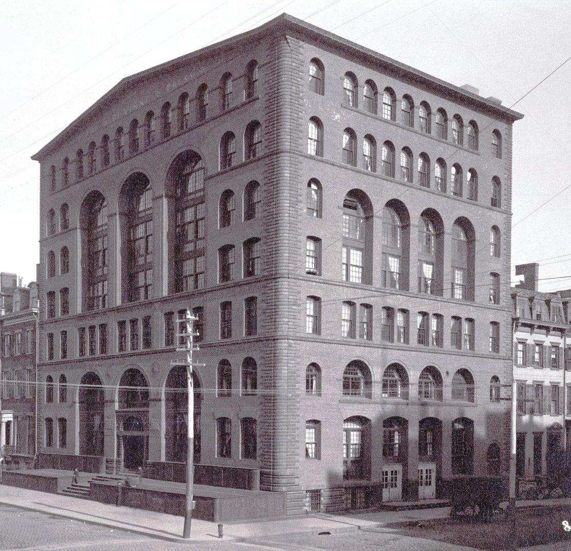 Collection: A. D. White Architectural Photographs, Cornell University Library Accession Number: 15/5/3090.00506 Title: DeVinne Press Building, Greenwich Village Architect: Babb, Cook & Willard (American, 1884-) Photograph date: ca. 1885-ca. 1895 Building Date: 1885 Location: North and Central America: United States; New York, New York Materials: albumen print Image: 6 x 8 1/4 in.; 15.24 x 20.955 cm Provenance: Transfer from the College of Architecture, Art and Planning Persistent URI: [1] There are no known U.S. copyright restrictions on this image. The digital file is owned by the Cornell University Library which is making it freely available with the request that, when possible, the Library be credited as its source. We had some help with the geocoding from Web Services by Yahoo!